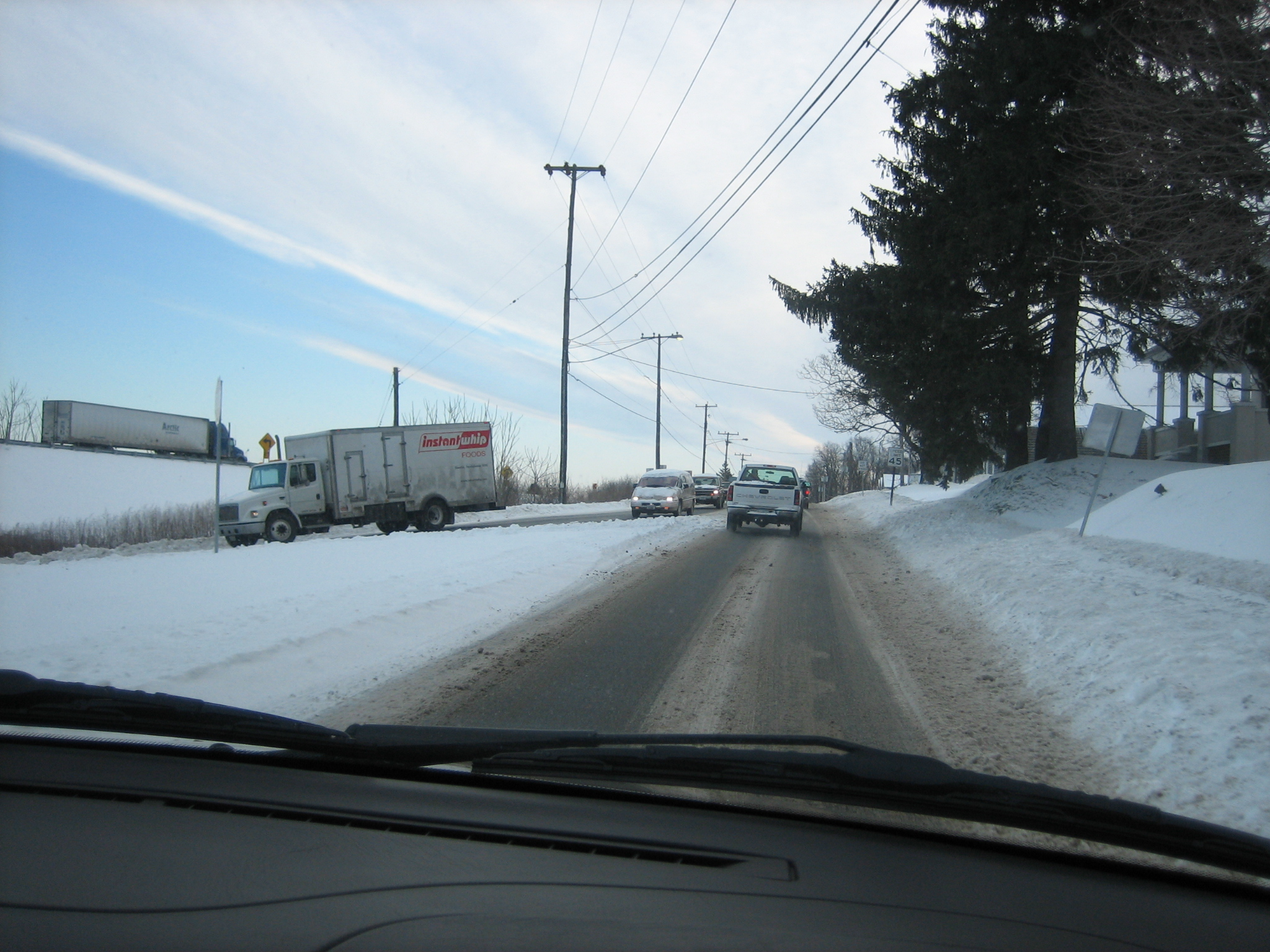 US Route 222 on Ramp, near Maidencreek, PA. Traffic is proceeding quite slowly due to the WInter Storm.